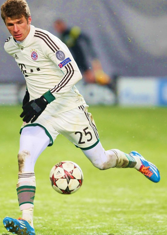 Thomas Müller 2013